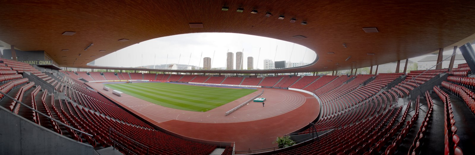 Interior view of the Letzigrung stadium in Zurich